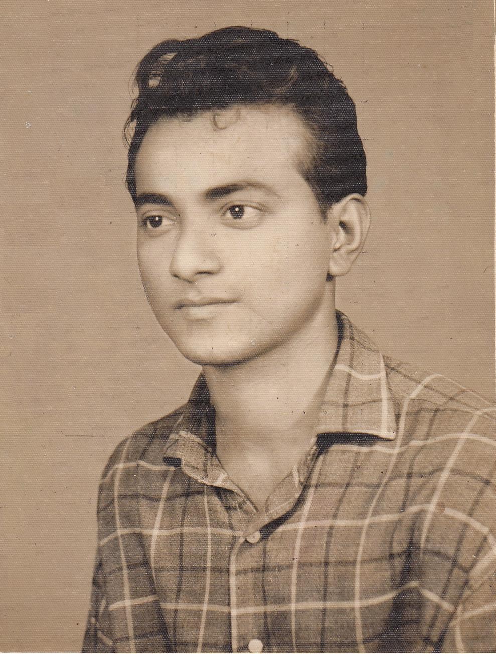 Dr. Azharul Haque while he was a medical student